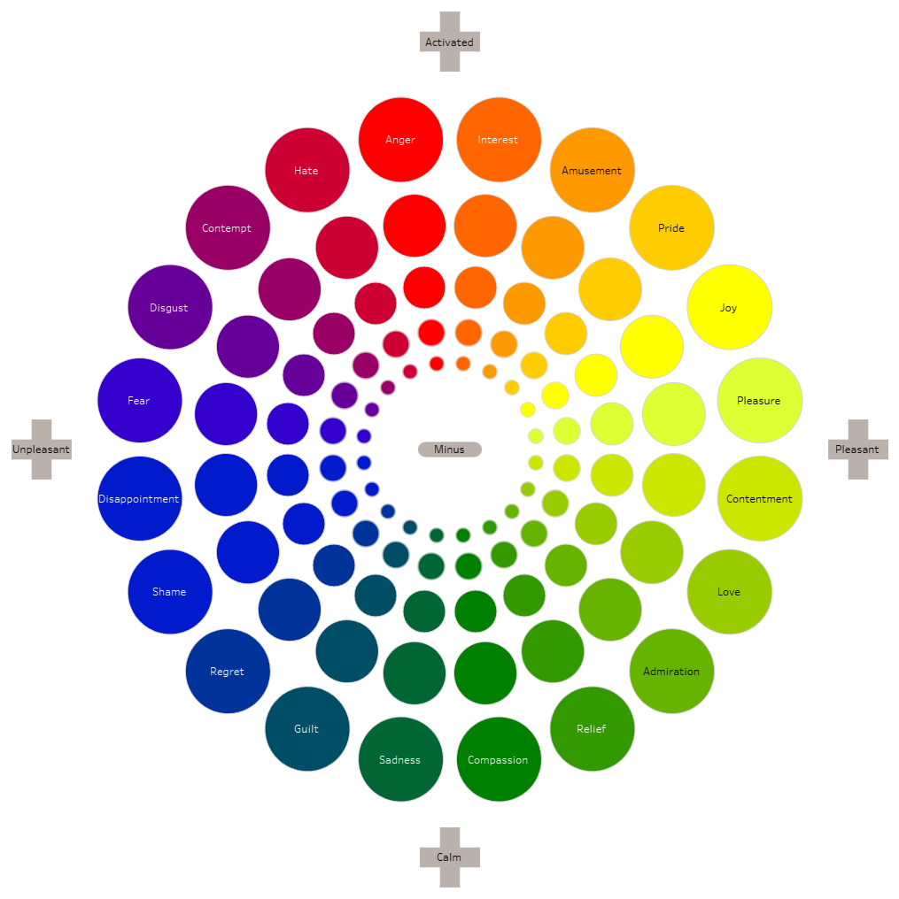 A method to sort emotions. Geneva Emotion Wheel (GEW; see Scherer, 2005; Scherer, Fontaine, Sacharin, & Soriano, 2013)